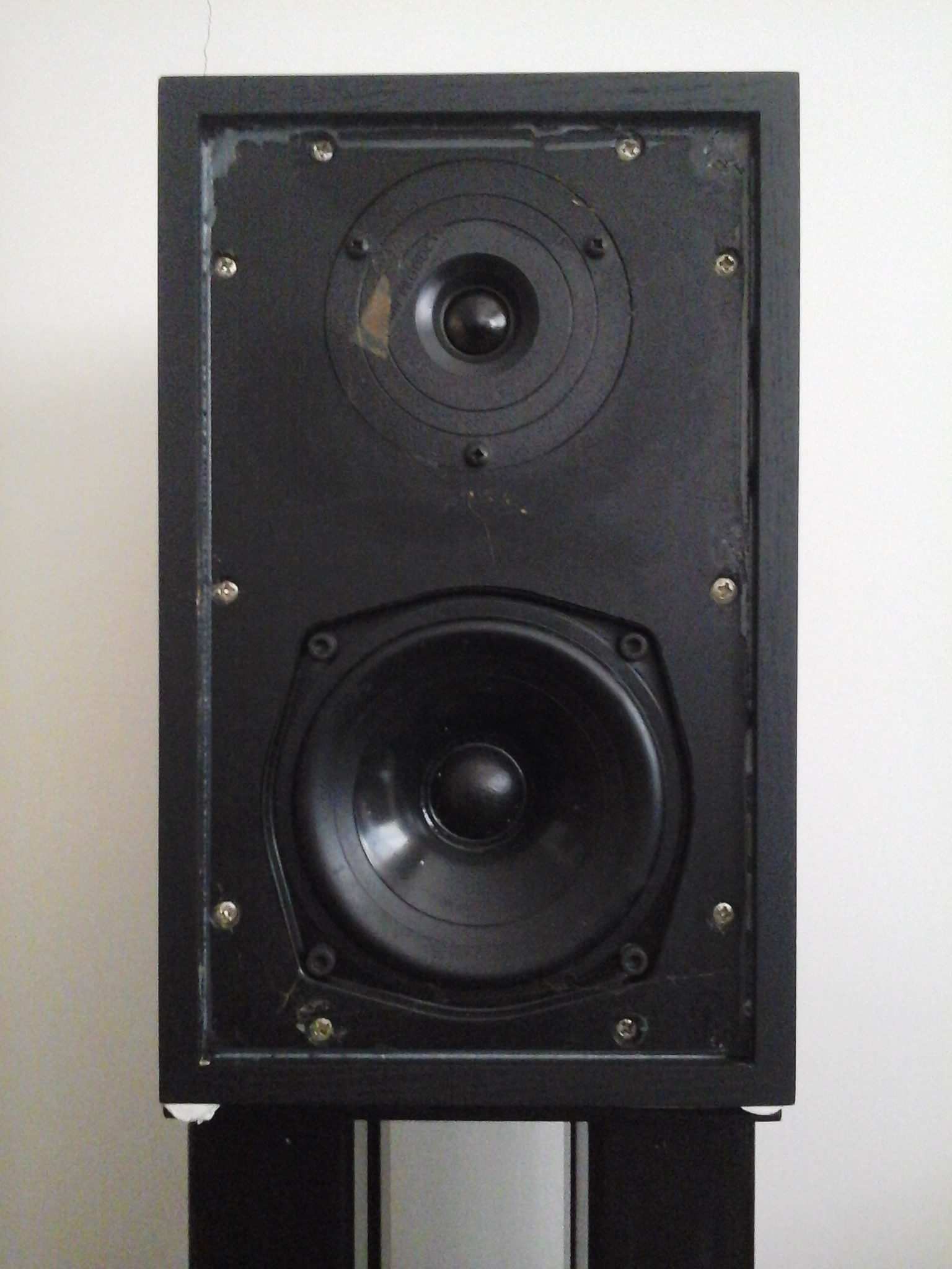 Linn Kan loudspeaker, seen without the grille quote from Wikipedia:en:LS3/5A “The Linn Kan, considered a clone of the LS3/5A”